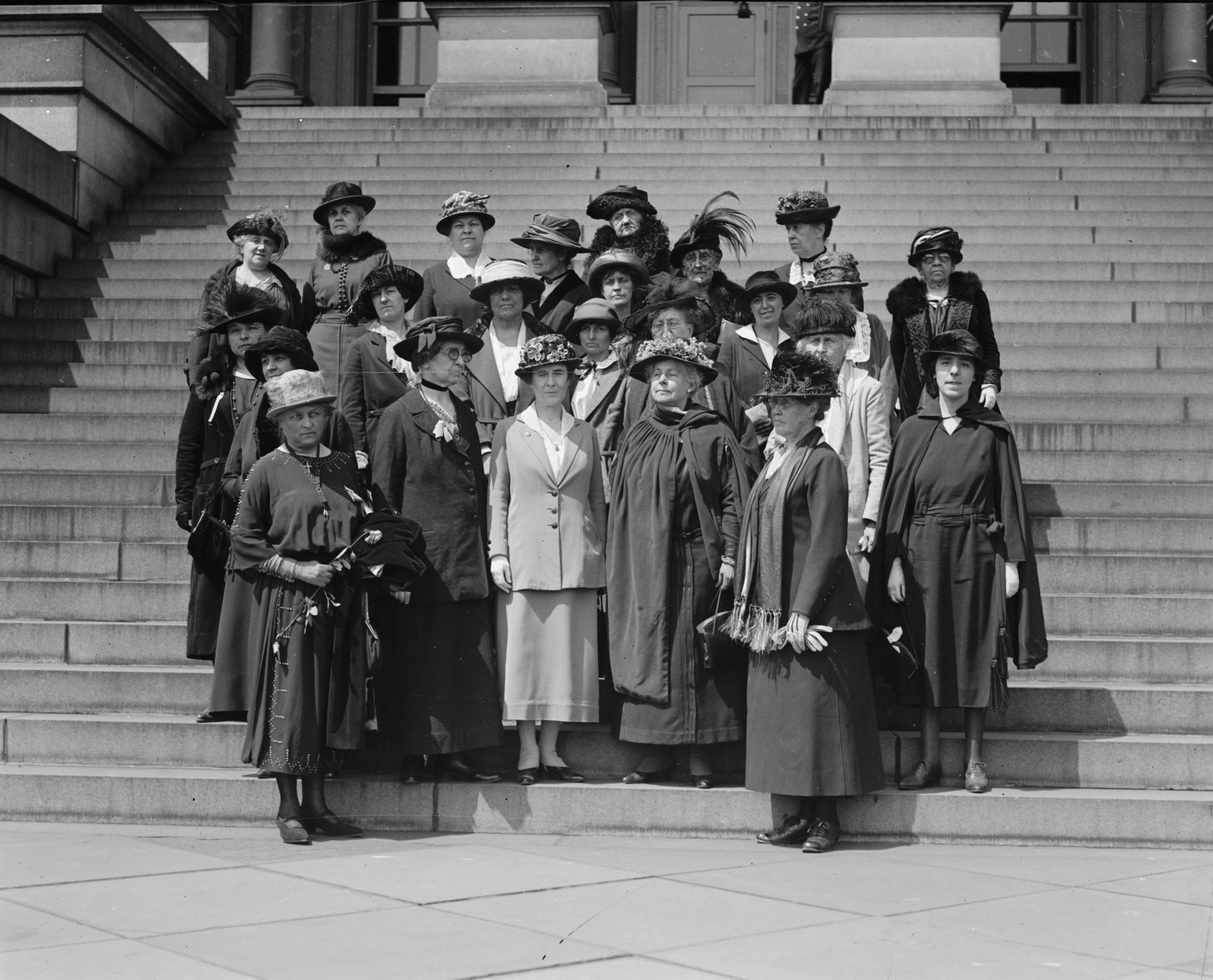 Women's International League, 5/1/22